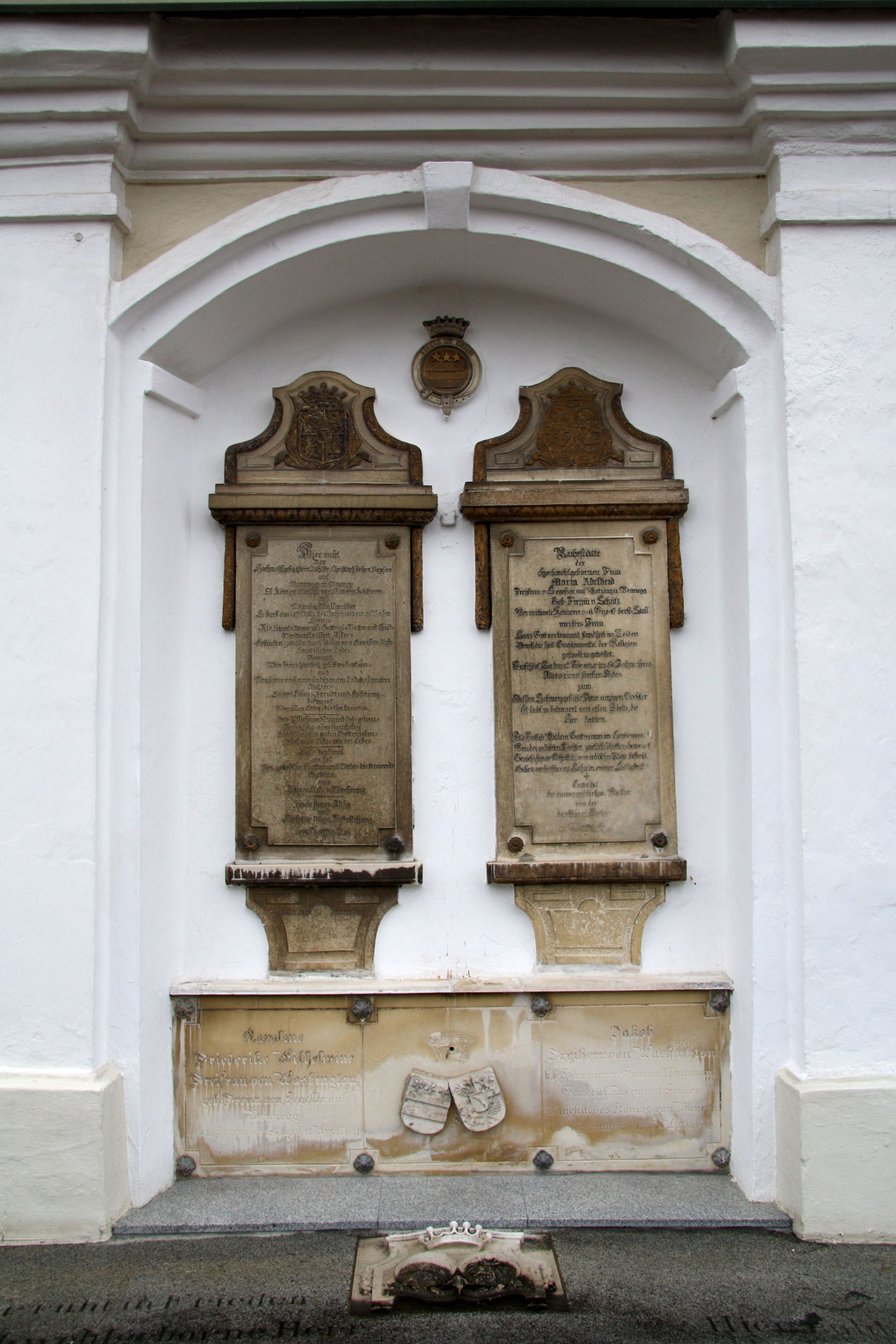 Cemetery of Notzing, Tomb of the Washingtons